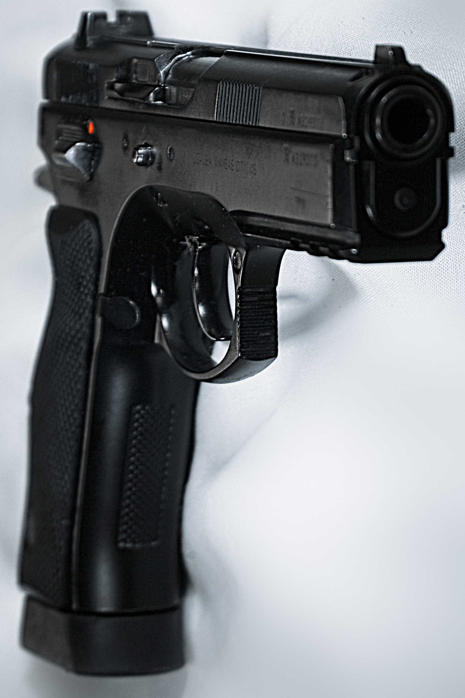 CZ 75 SP-01, showing integral 1913 accessory rail on the dust cover